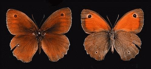 Contributions to Zoology - Maniola halicarnassus (female) Cut-out from original (Maniola species.jpg) shown below